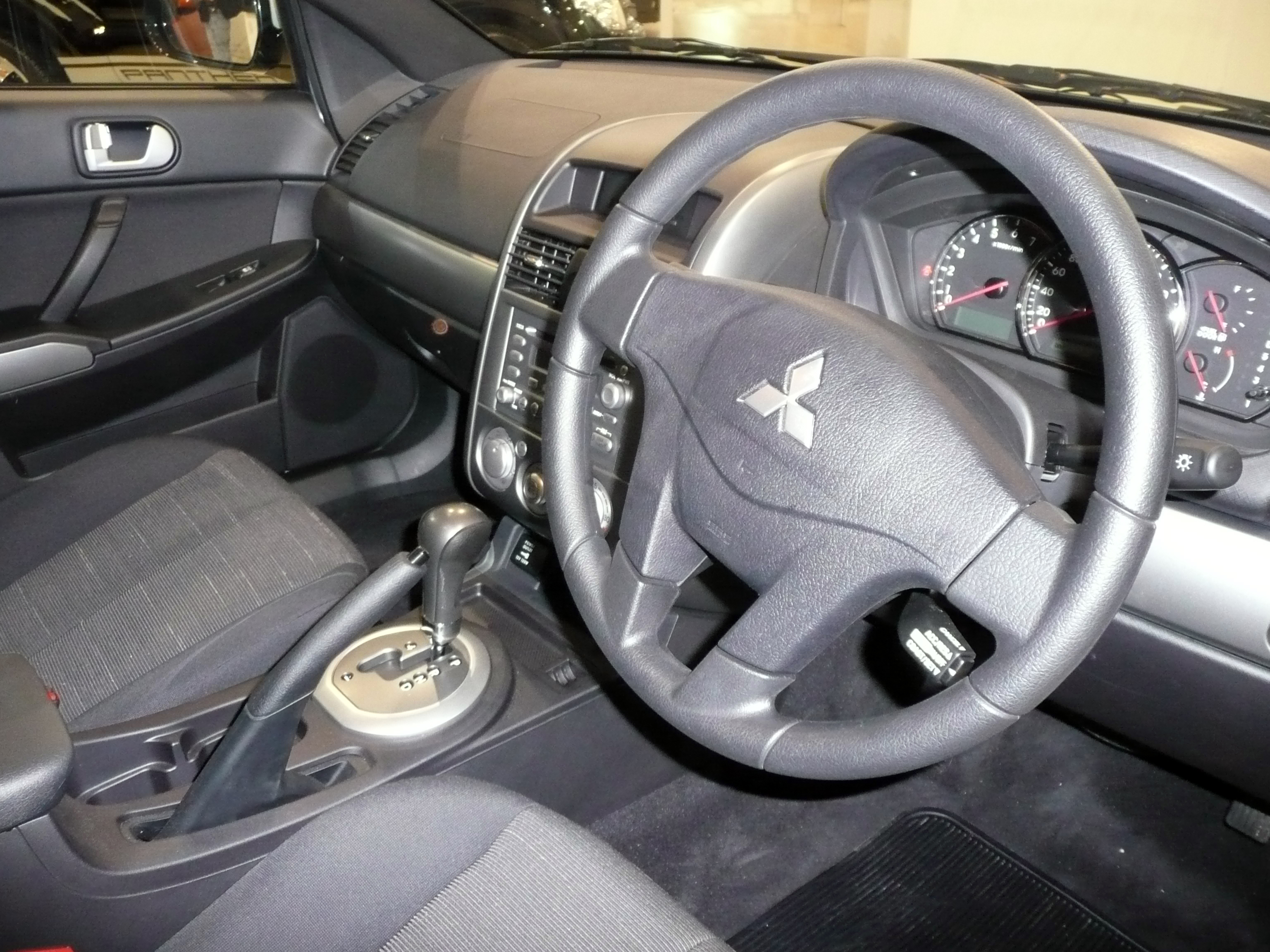 2007 Mitsubishi 380 ES Sports. Photographed at the 2007 Australian International Motor Show, Sydney, New South Wales, Australia.